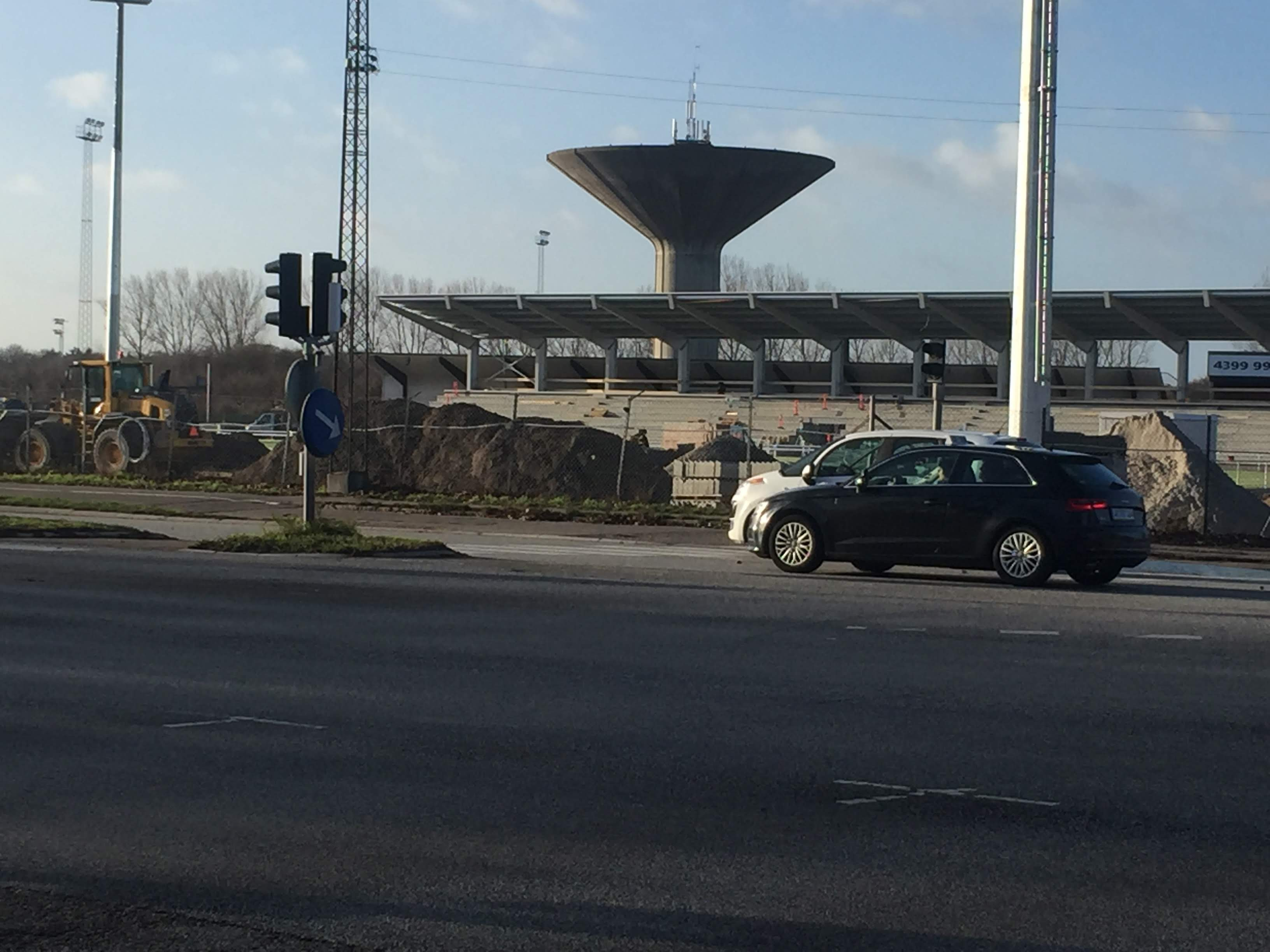 Køge Stadium during reconstruction in December 2018. In the background is the water tower in Køge, and just behind the new stand, the remaining part of the old stadium is visible